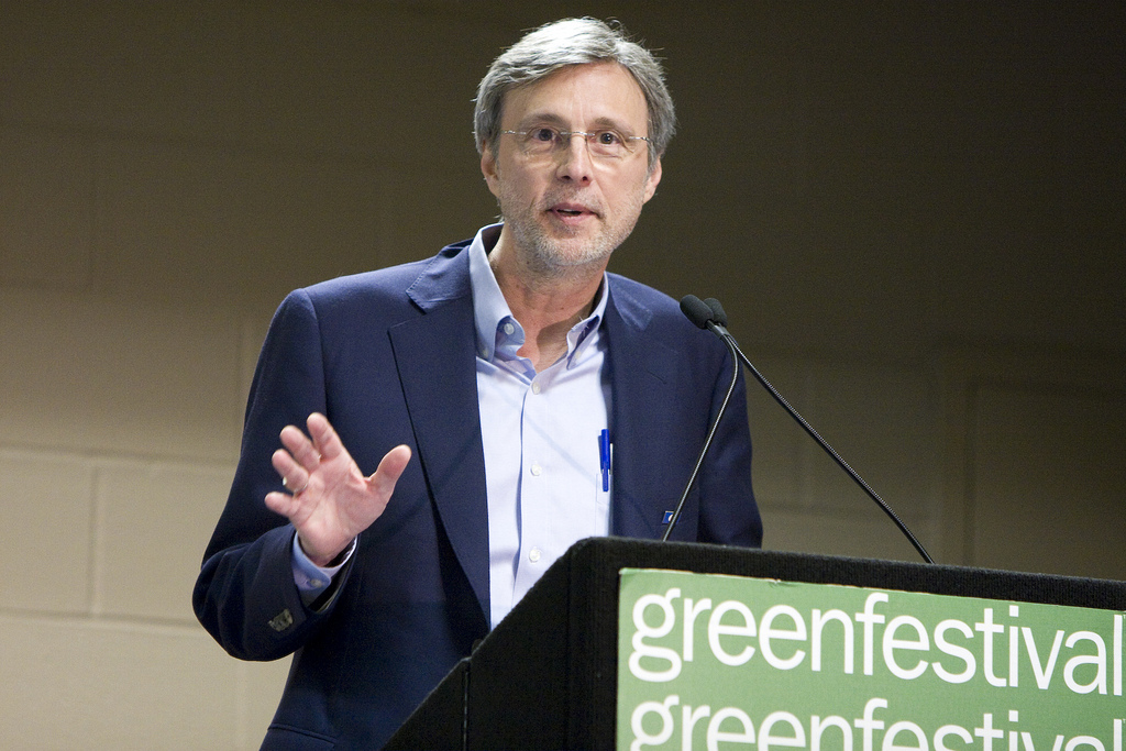 Thom Hartmann, author and talk show host, speaks at the 2010 Chicago Green Festival.